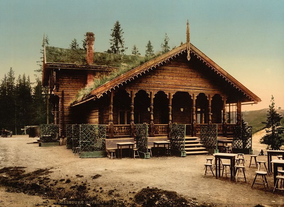 [Fossestuen Hotel, Trondhjem, Norway] [between ca. 1890 and ca. 1900]. 1 photomechanical print : photochrom, color. Notes: Title from the Detroit Publishing Co., Catalogue J--foreign section. Detroit, Mich. : Detroit Publishing Company, 1905. Print no. 7112. Forms part of: Landscape and marine views of Norway in the Photochrom print collection. Subjects: Norway--Trondheim. Format: Photochrom prints--Color--1890-1900. Repository: Library of Congress, Prints and Photographs Division, Washington, D.C. 20540 USA, Part Of: Landscape and marine views of Norway (DLC) 2001699563 More information about the Photochrom Print Collection is available at Persistent URL: Call Number: LOT 13432, no. 149 [item]